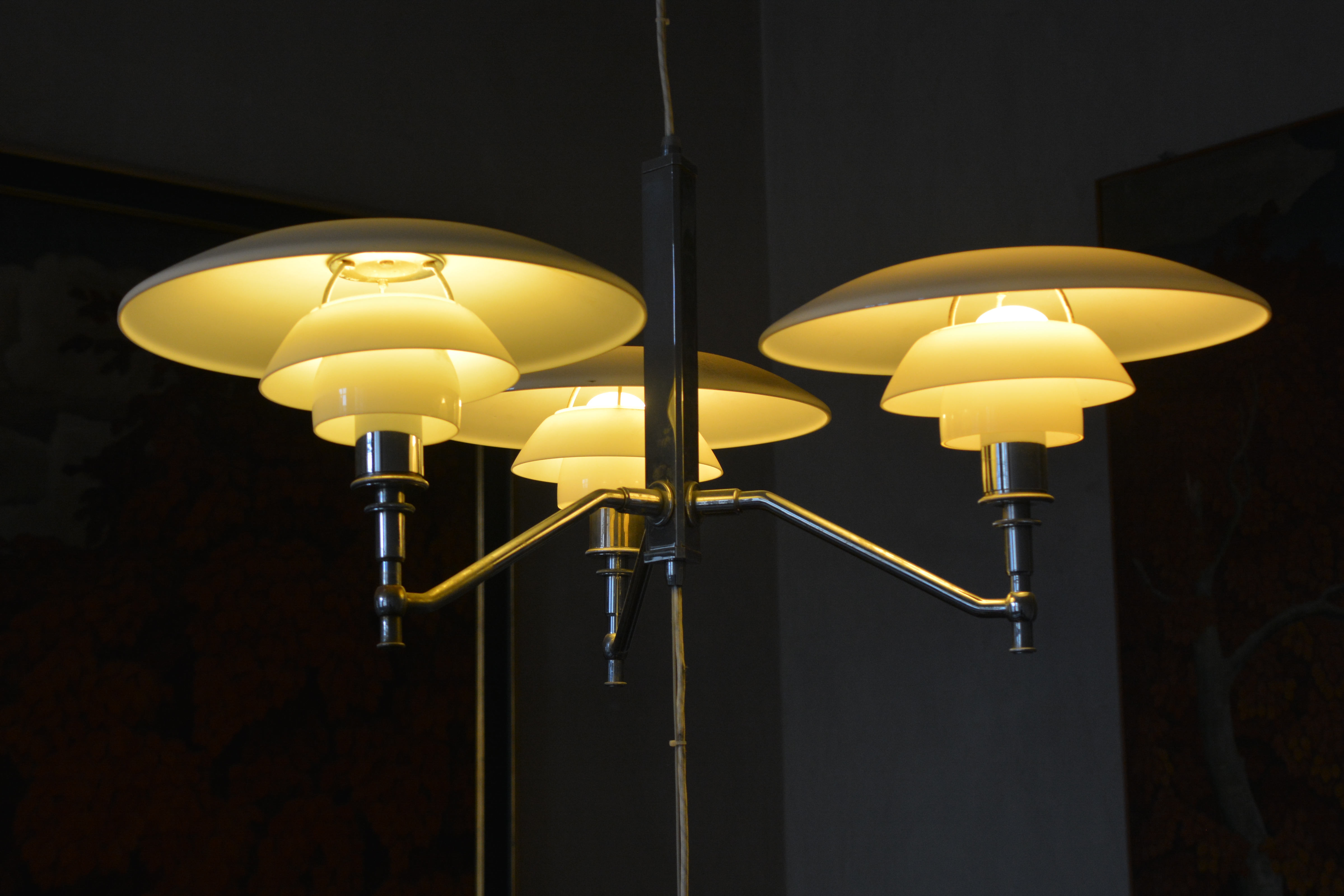 PH Ceiling lamp, Danish Design Museum, Copenhagen